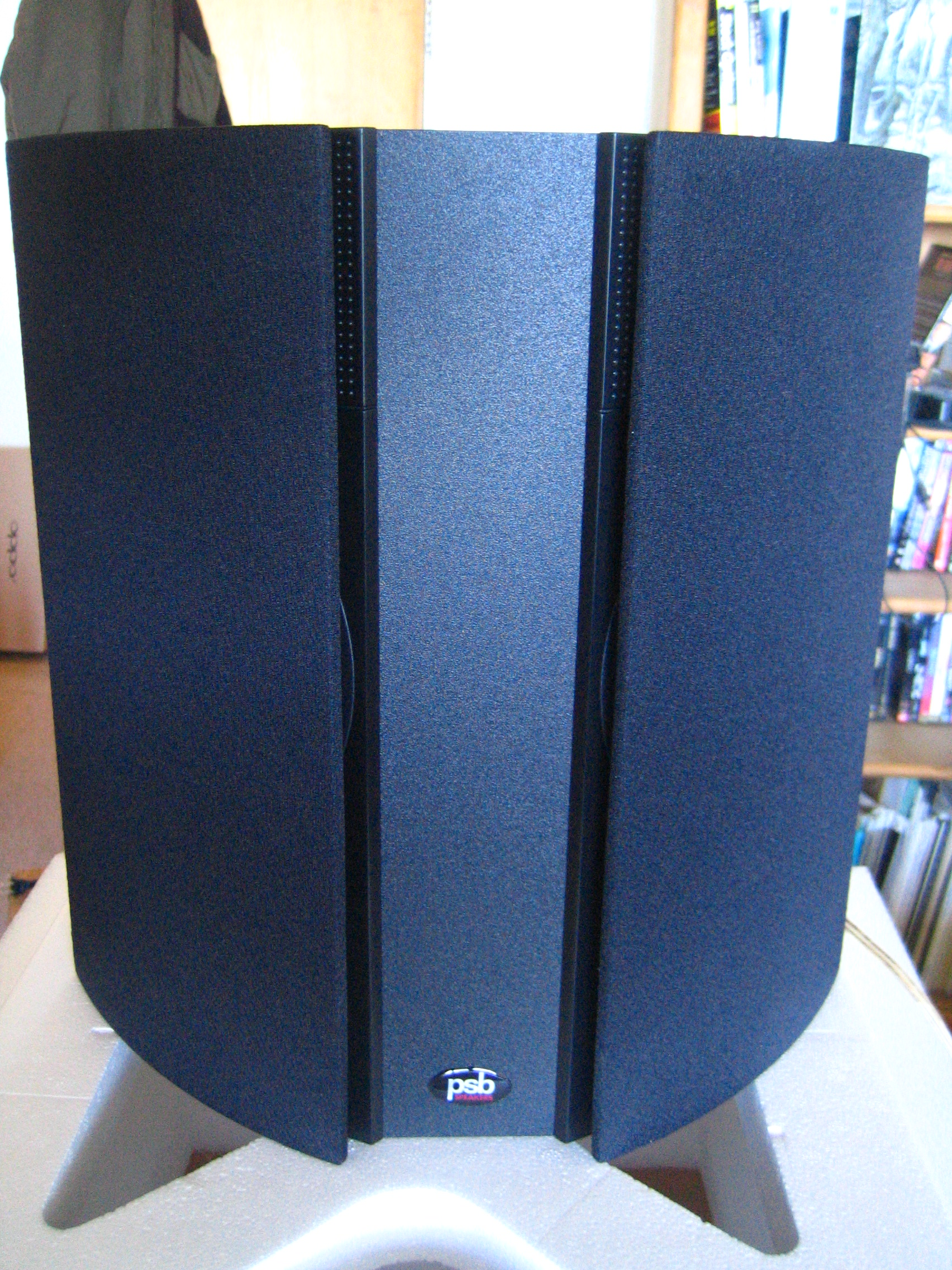 A PSB S50 bipolar surround speaker.